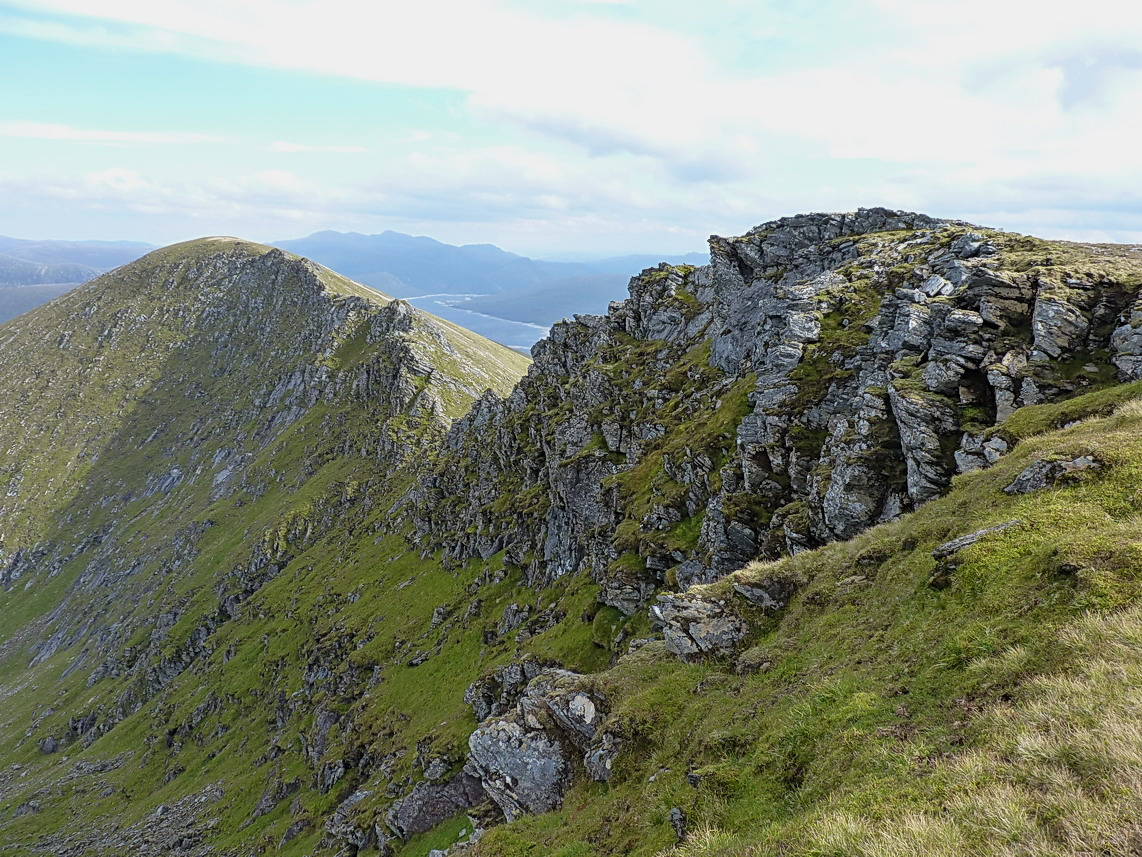 This northerly face of Lurg Mhòr's east ridge drops roughly 2200' into the trench containing Loch Monar, and the upper parts are really quite steep and craggy.